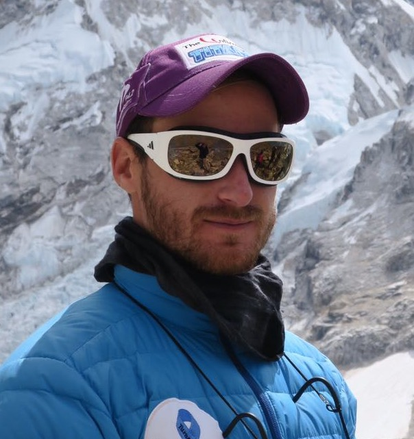 Lysle Turner on Mt. Everest, 2016.